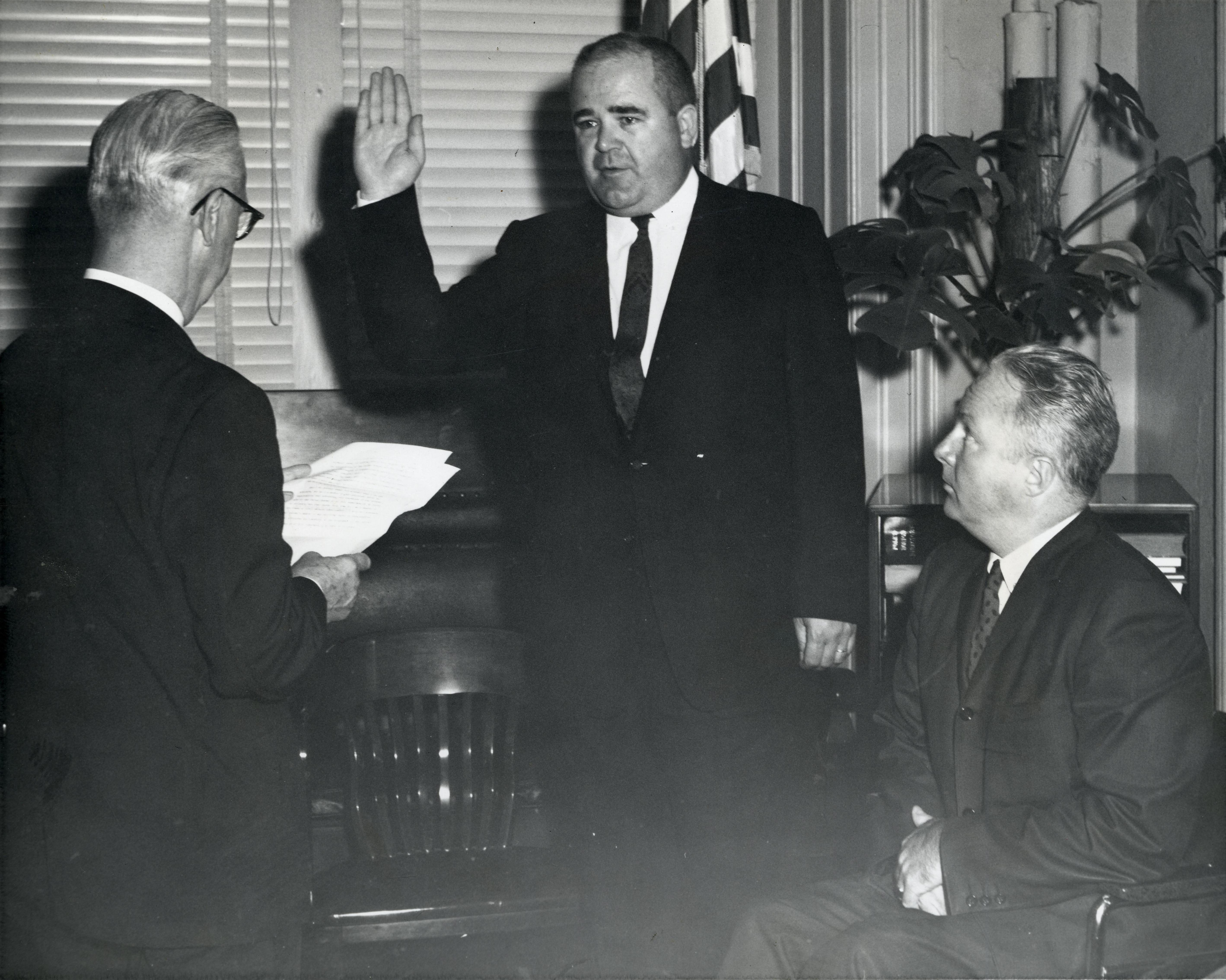 Title: Brigadier General Charles W. Sweeney takes over office as Director of Boston's Civil Defense Agency following his return from active duty. City Clery Walter J. Malloy administers the oath of office while Mayor John F. Collins watches Creator: City of Boston Date: circa 1960-1968 Source: Mayor John F. Collins records, Collection #0244.001 File name: 244001_1168 Rights: Copyright City of Boston Citation: Mayor John F. Collins records, Collection #0244.001, City of Boston Archives, Boston